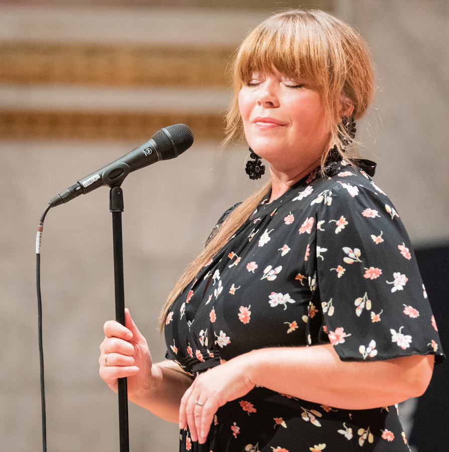 Solveig Slettahjell in the University Aula. The concert was part of Oslo Jazzfestival and took place on 14. August 2018 in Oslo. Lineup:Solveig Slettahjell (piano and vocal)Pål Hausken (percussion)